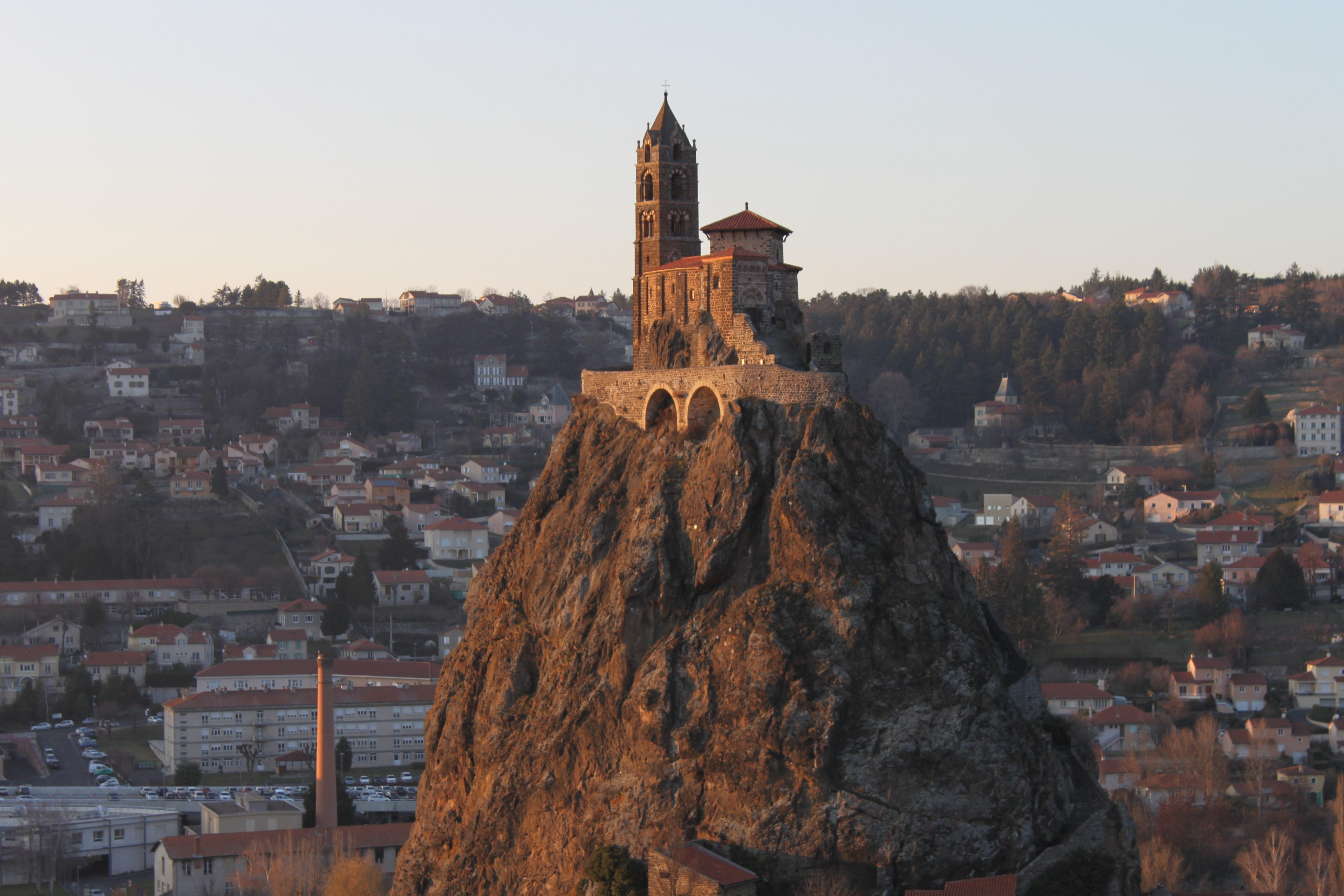 Aiguilhe Chapel, near Le-Puy-en-Velay (France) at twilight at the end of winter